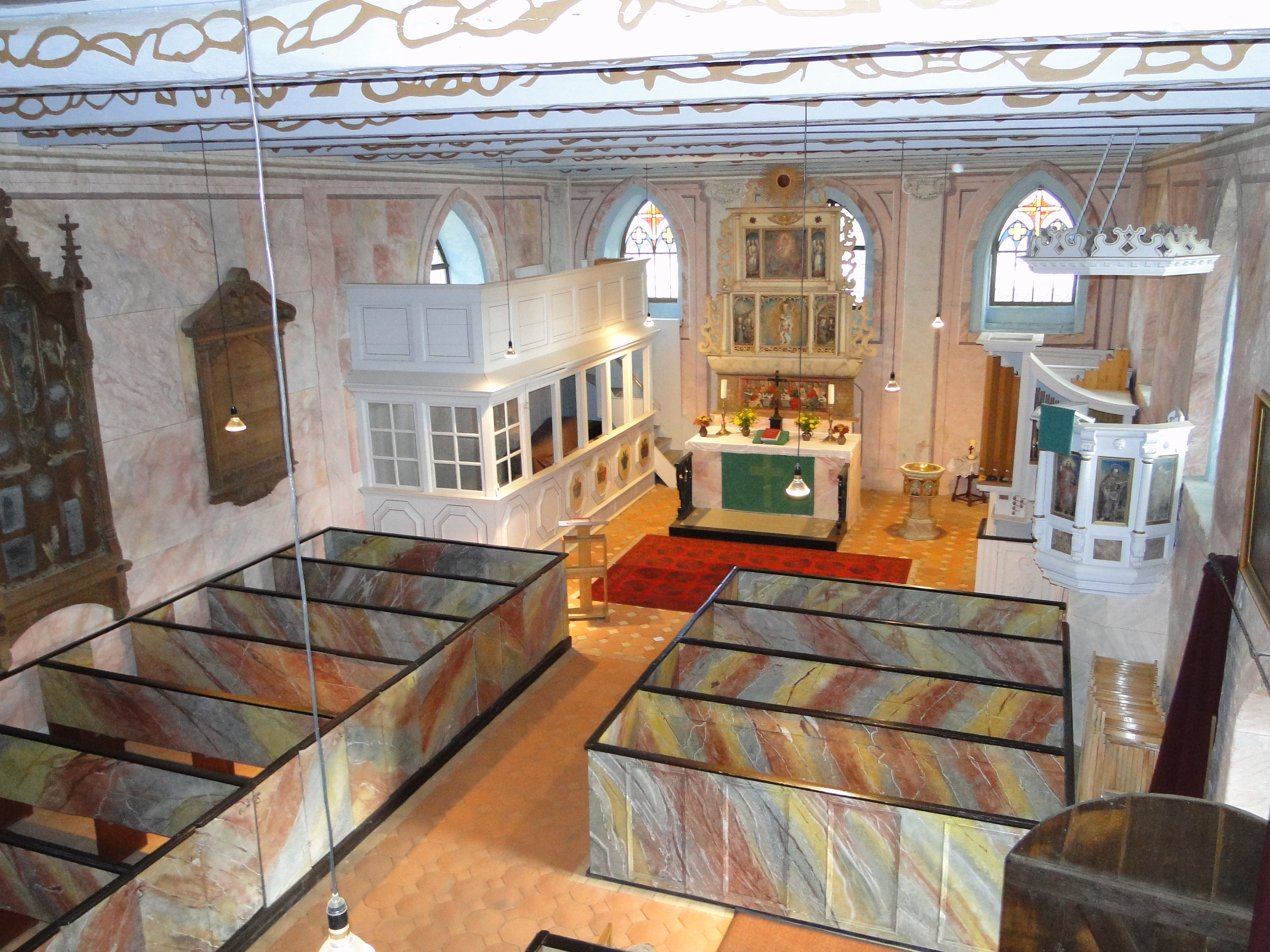 Church in Wamckow, district Ludwigslust-Parchim, Mecklenburg-Vorpommern, Germany Interior